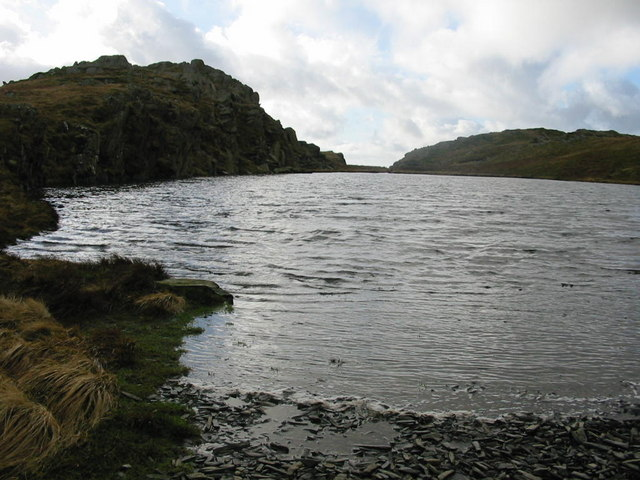 Llyn Terfyn "Boundary Lake" was on theold Caernarfon, Meirionydd county boundary.